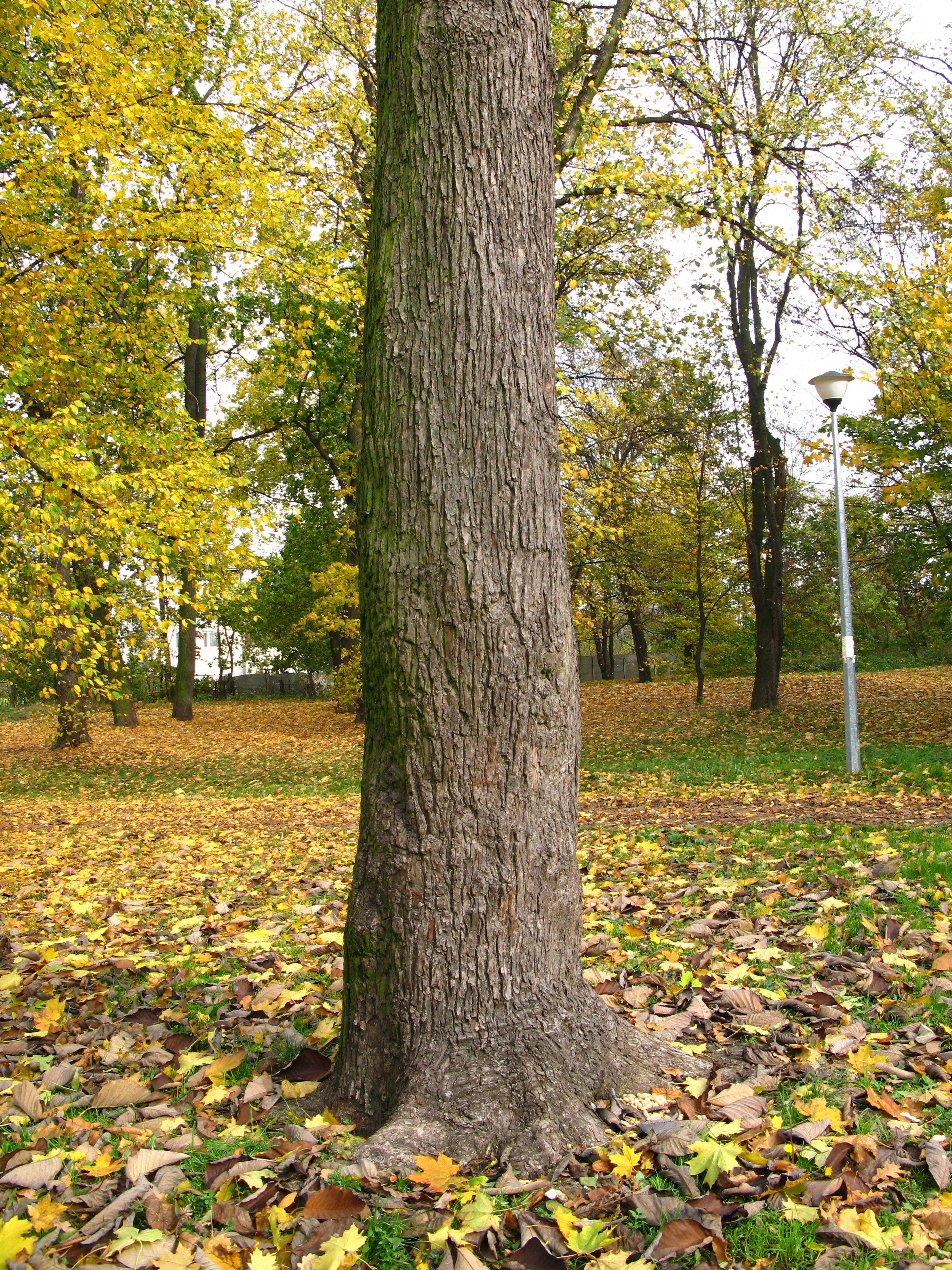 Trunk of Magnolia acuminata, Briggs Park, Marki, Poland